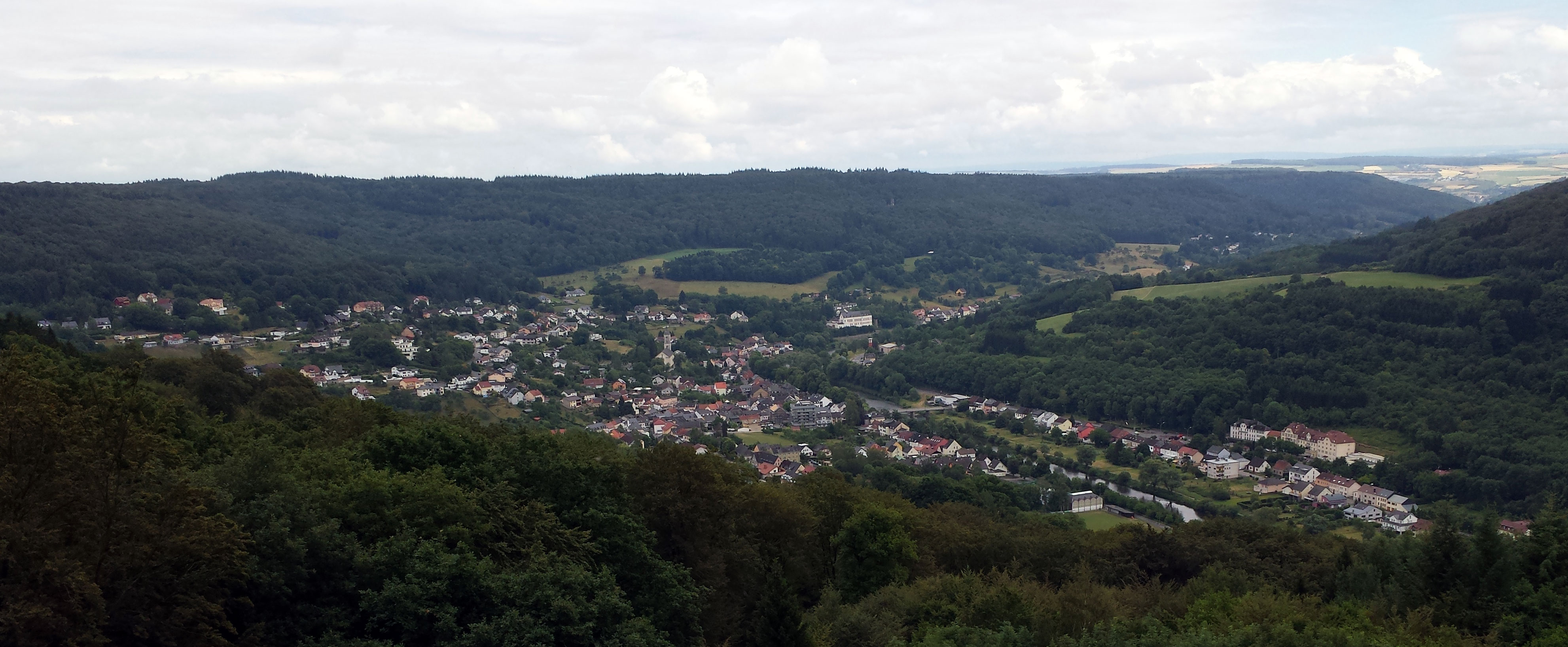 Panoramic view of Bollendorf (D), Bollendorf-Pont (LU) and river Sauer